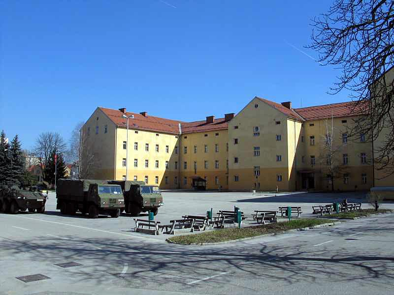 Vojašnica Celje